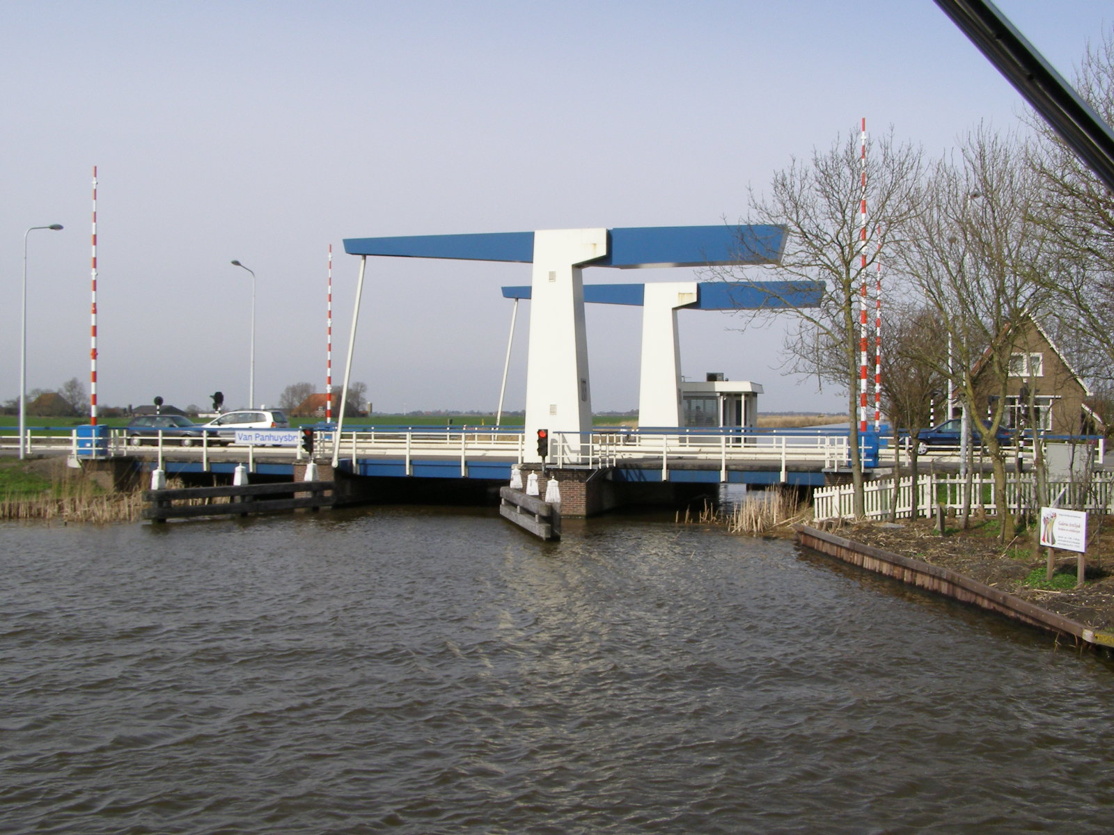 Bridge over the Van Panhuyskanaal.